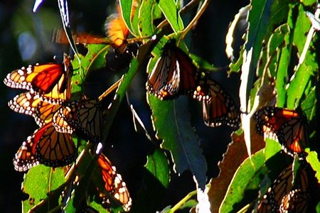 Portion of one small Monarch Butterfly cluster — at Ellwood Mesa Open Space in Goleta, Santa Barbara County, California.